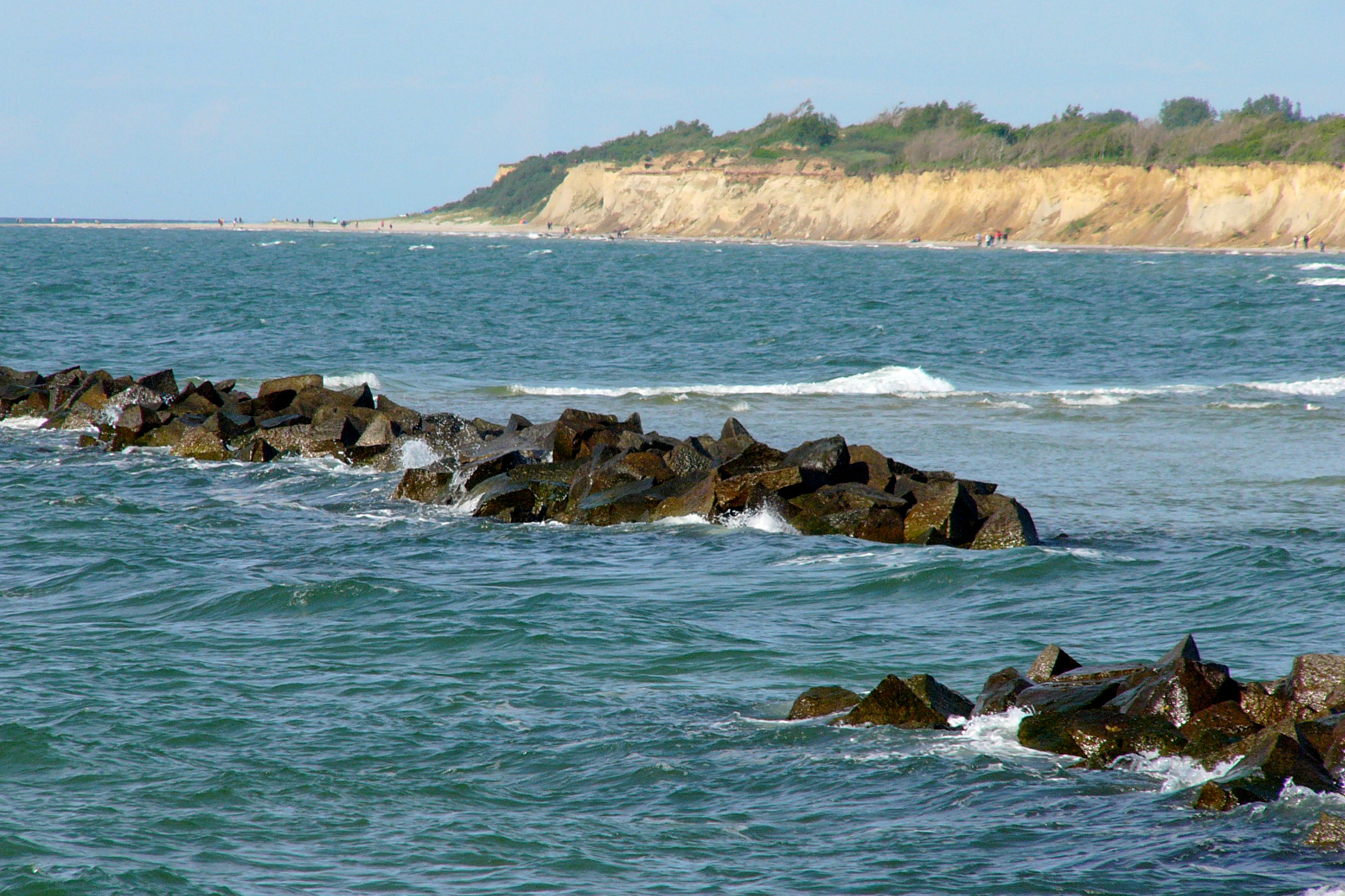 Description: Steep coast near Wustrow, Germany Source: own work Uploader: User:Nikater Date: October 21, 2006 Other Versions: none License status